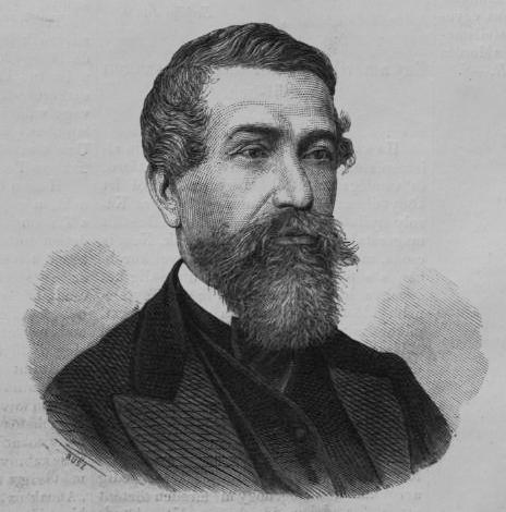 Portrait of István Morócz